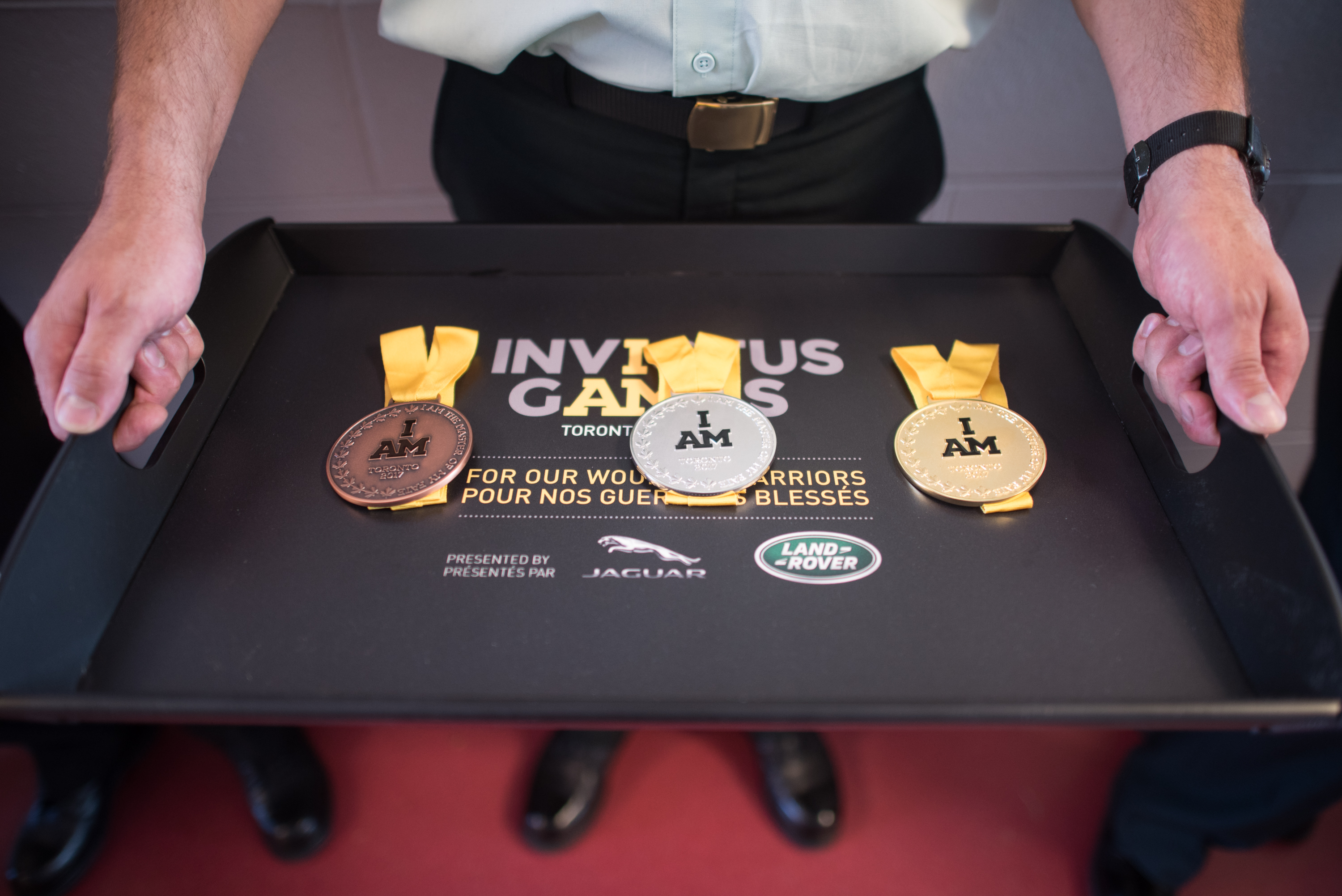 A member of the Canadian Armed Forces holds the medals for an Athletics competition of the 2017 Invictus Games at the York Lions Stadium in Toronto, Canada, Sept. 24, 2017. More than 550 wounded, ill and injured servicemen and women from 17 allied nations are expected to compete. (DoD Photo by U.S. Army Sgt. James K. McCann)